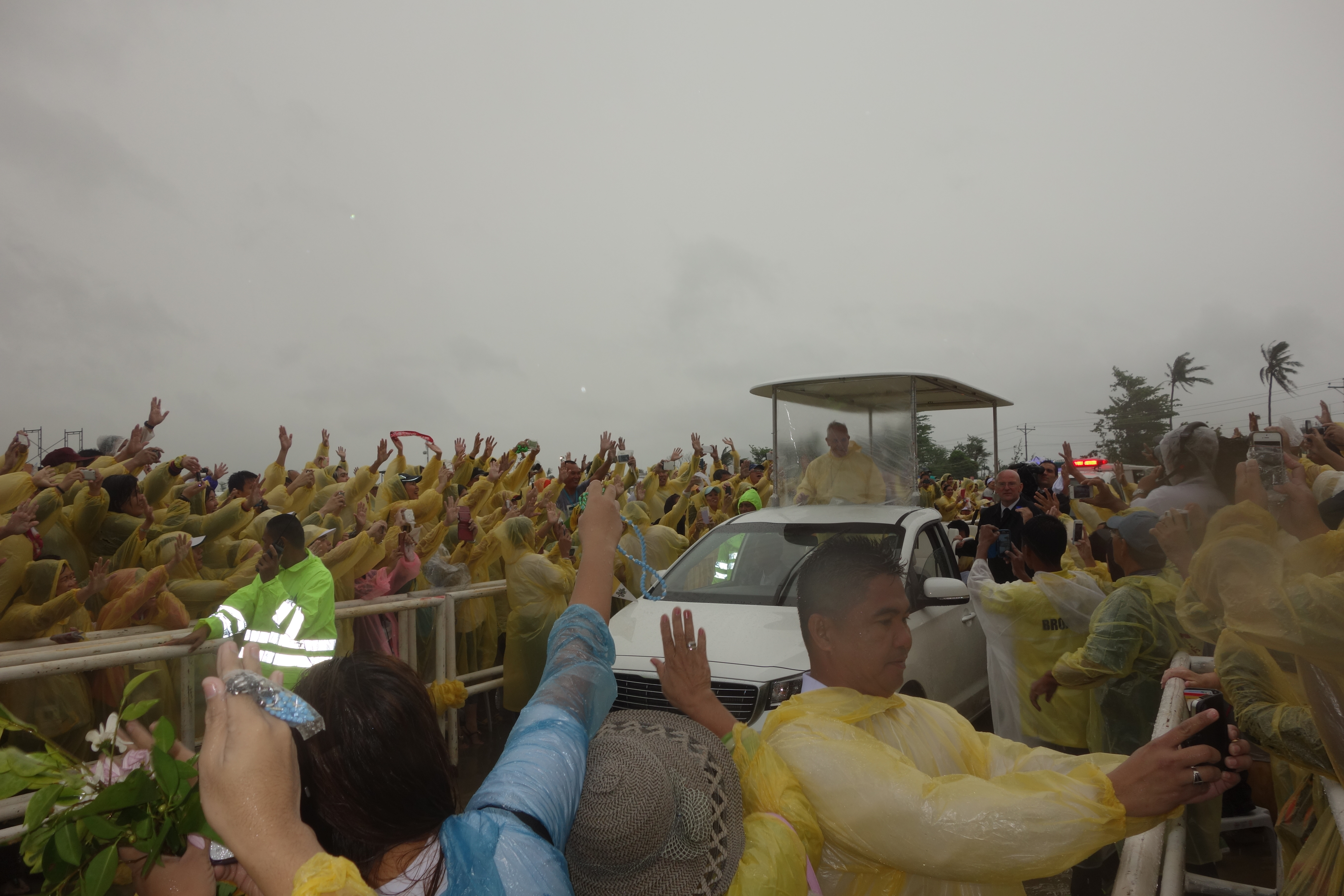 Pope Francis rides his "popemobile" around the faithful after the papal Mass at the DZR Airport in Tacloban, Philippines.